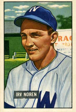 Major League Baseball player Irv Noren in 1951.